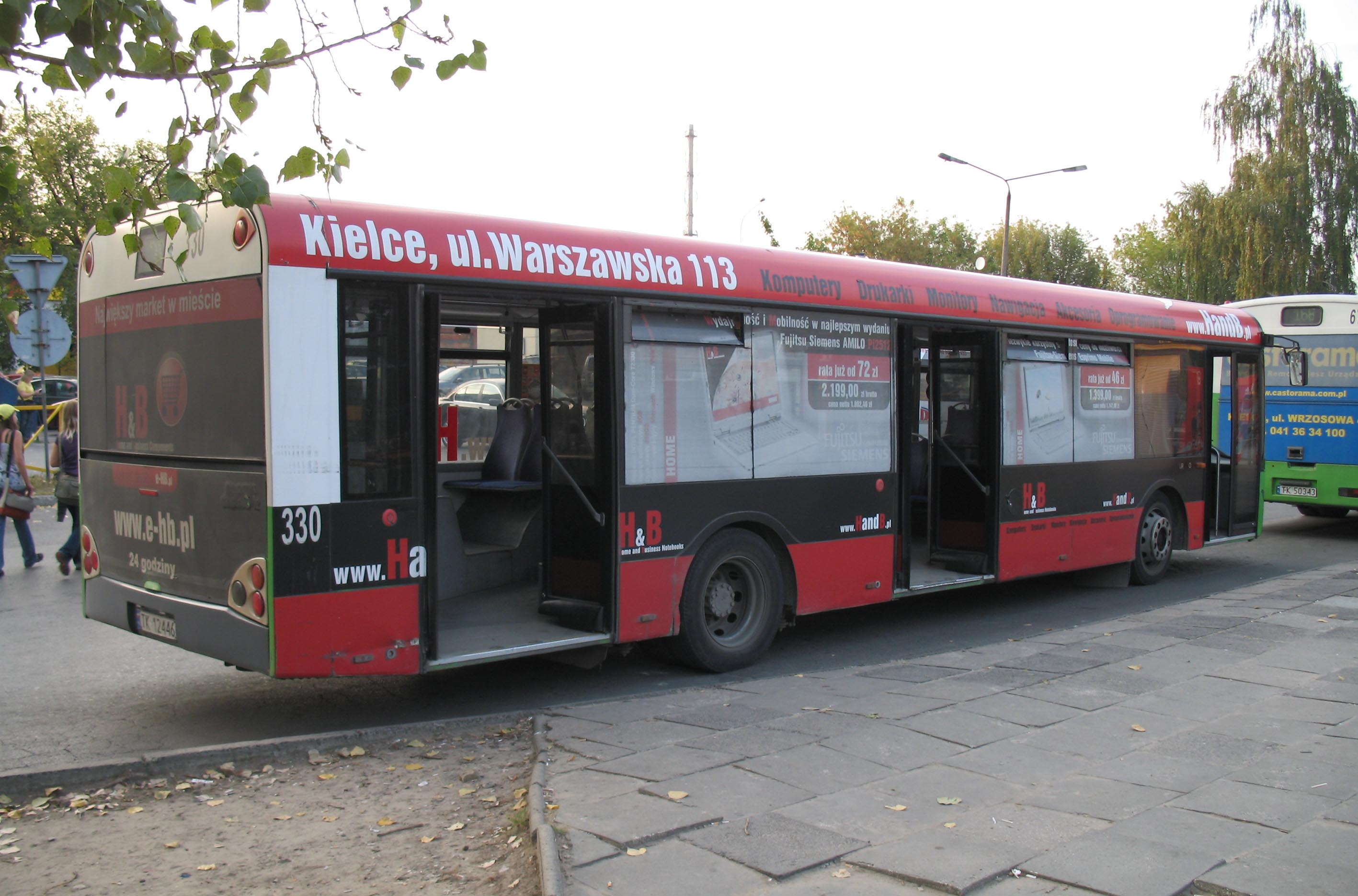 Solaris Urbino 12 Mk1 bus (#330) in Kielce, Poland. Year built 2000. MPK Kielce company.